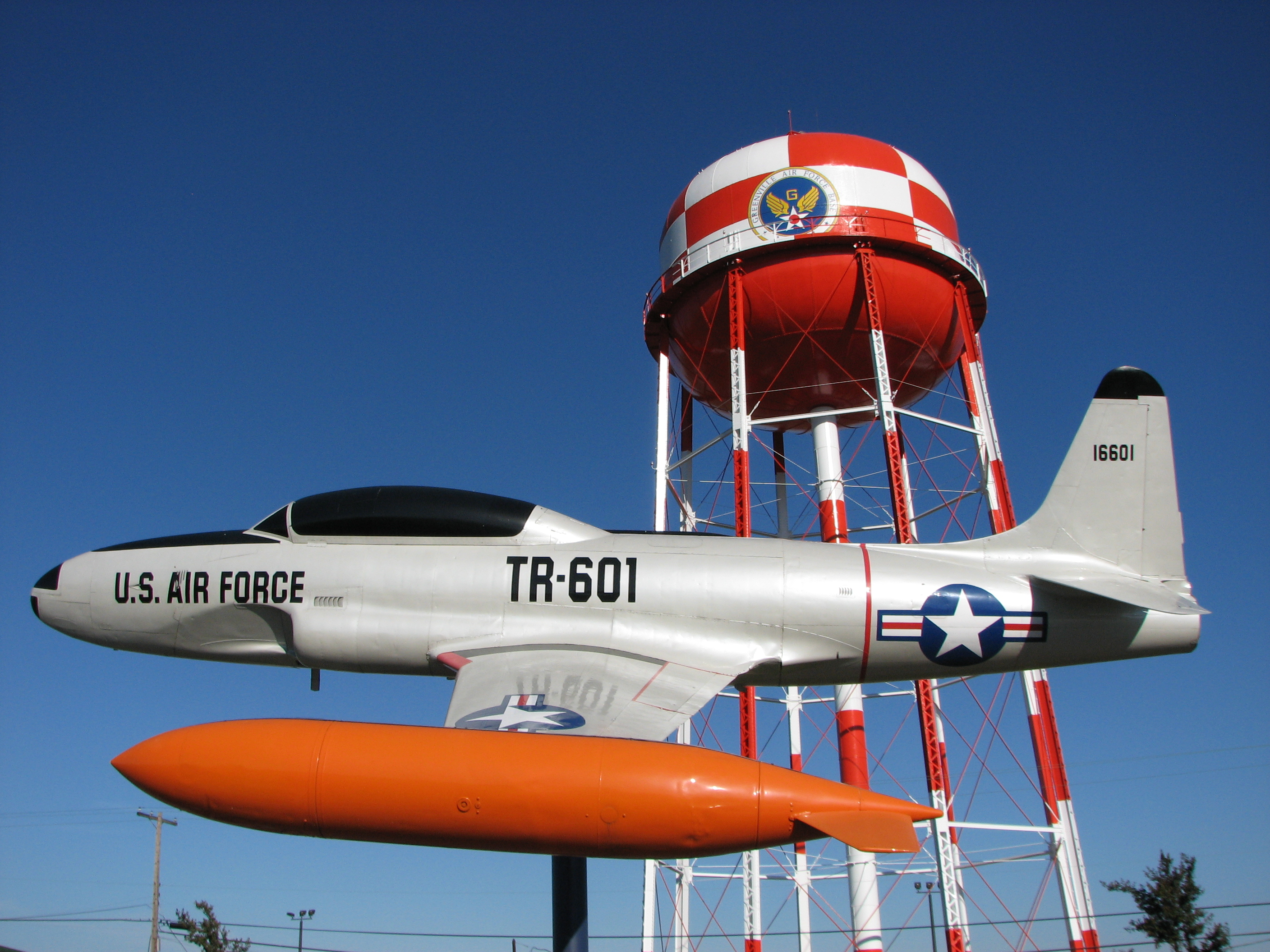 Greenville Air Force Base Memorial